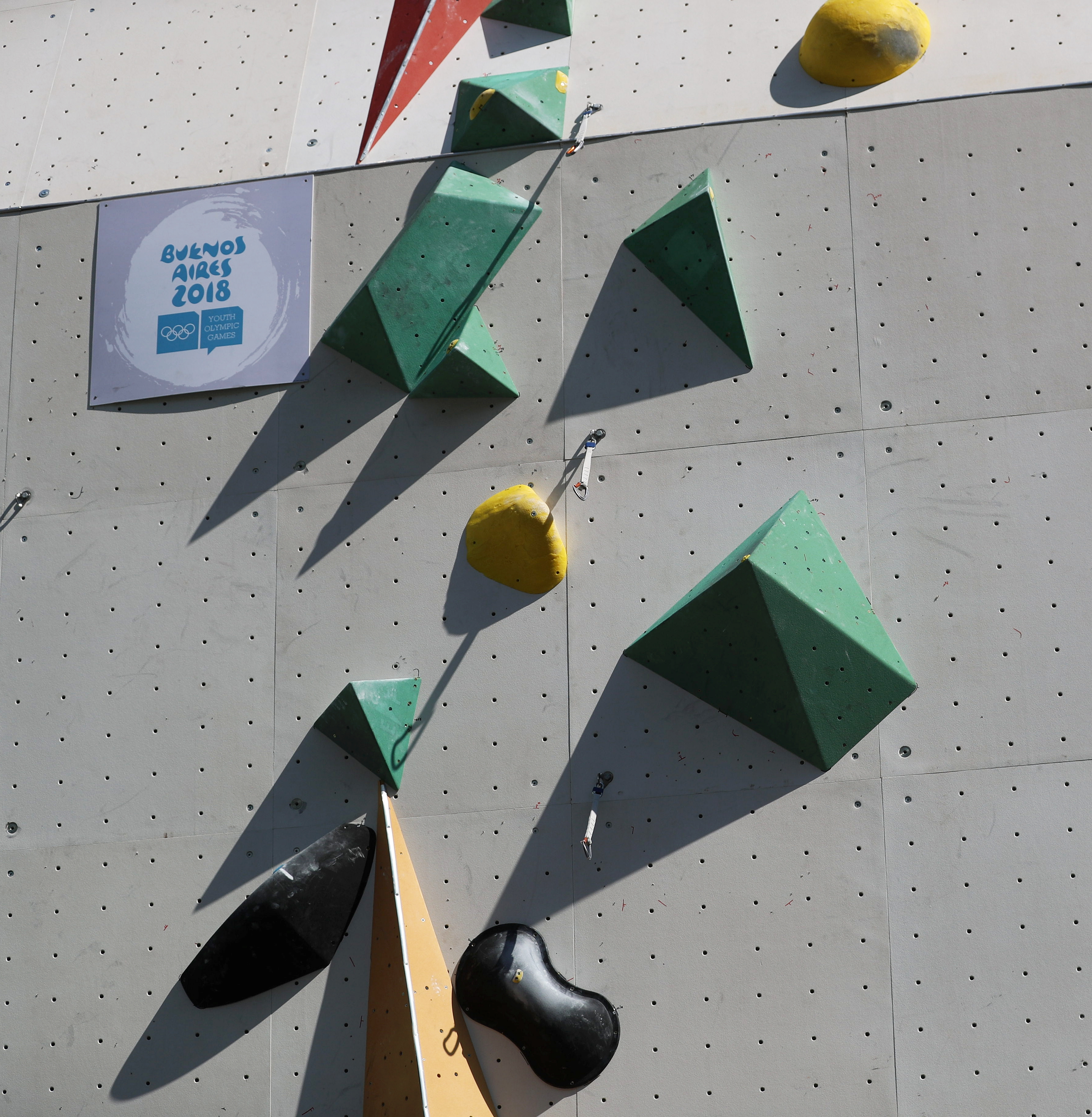 Lead climbing competition in the final of the girls' sport climbing at the 2018 Summer Youth Olympics in Buenos Aires on 9 October 2018.